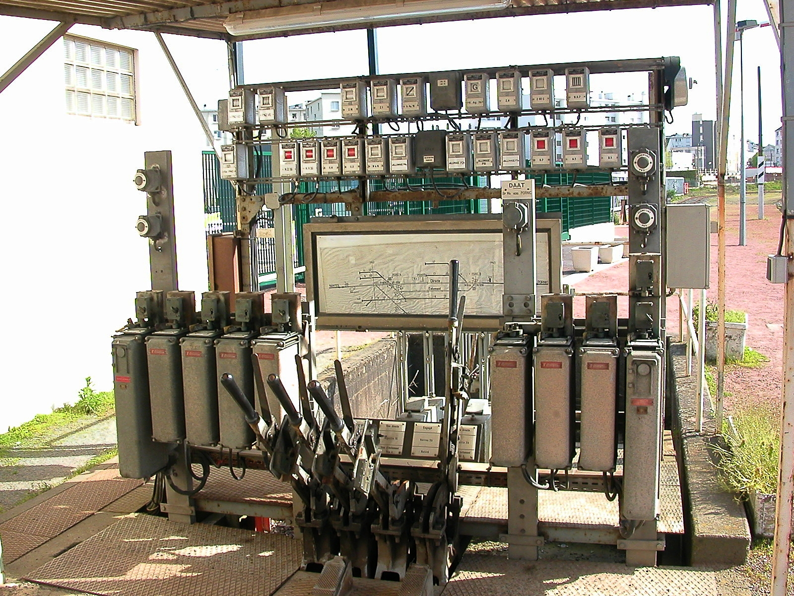 Hand-operated point levers of the Pont-Rousseau station in Rezé.